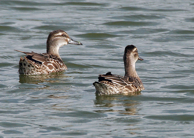 Garganey Anas querquedula in Uppalapadu, Andhra Pradesh, India.